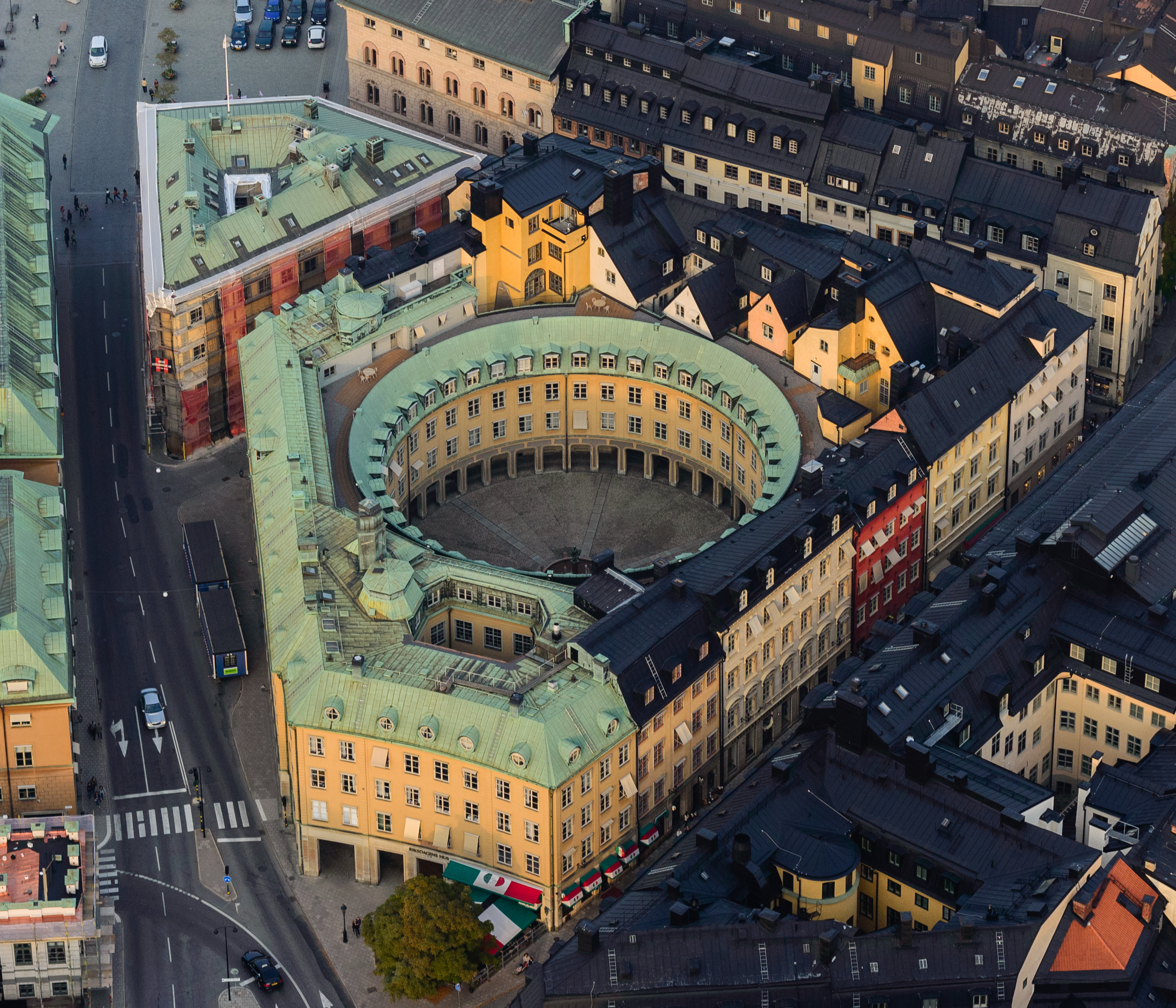 City block Cephalus in old town, Stockholm.